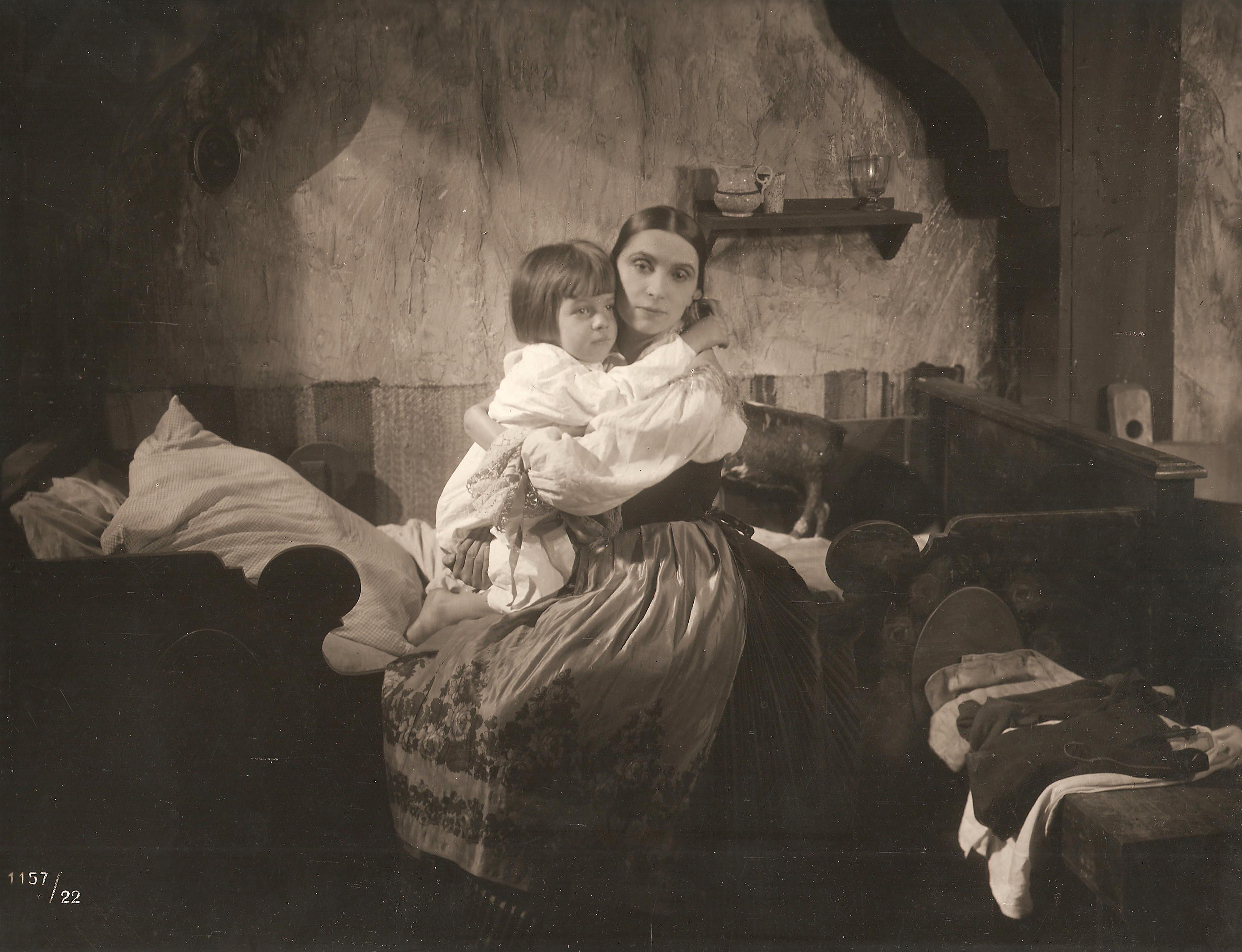 The four-year-old Arnold Ernst Fanck (1919–1994), eldest son of German moviemaker Arnold Fanck (1889–1974), as captured in the silent movie Der Berg des Schicksals (= The Mountain of Destiny) in 1923/24, where Luis Trenker (1892–1990) debuted. Arnold jun. played the son of the climber (Hannes Schneider) and his wife (Erna Morena). Cameramen were his father Arnold Fanck, Sepp Allgeier, Herbert Oettel, Eugen Hamm, and Hans Schneeberger.